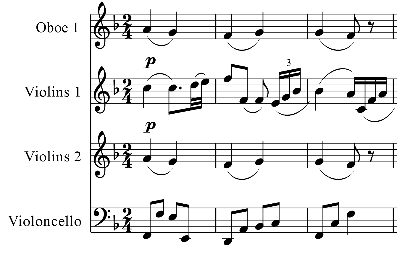 Joseph Haydn, Symphony No 26, second movement, bar 1-3